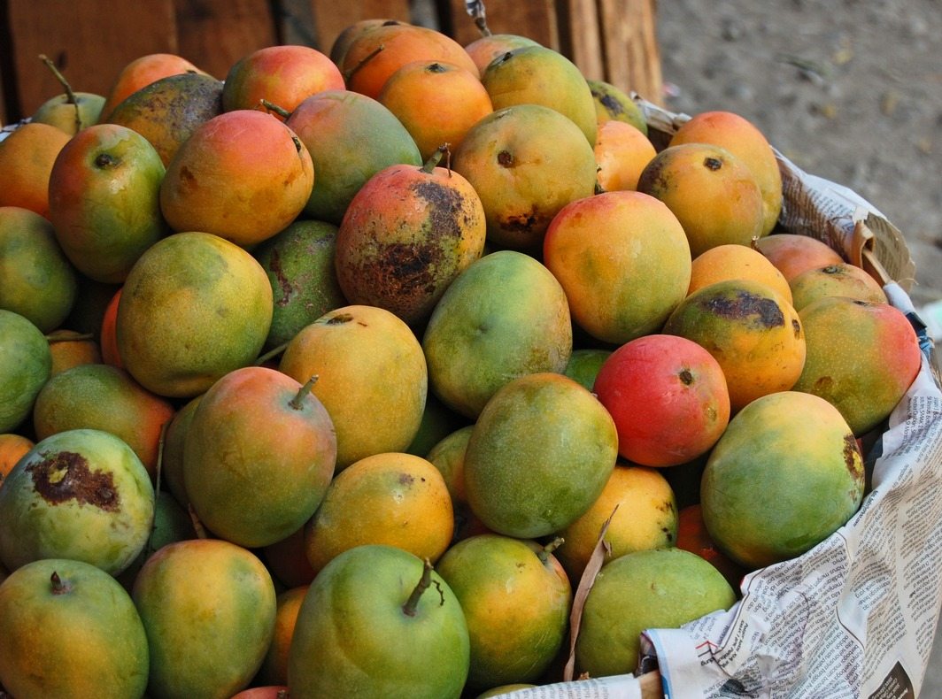 Mangga gedong gincu, a cultivar of mango, Mangifera indica, sold at roadside of Tomo, Sumedang, West Java, Indonesia.